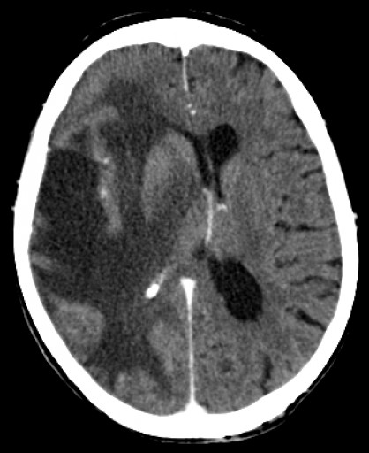 This image is part of a series which can be scrolled interactively with the mousewheel or mouse dragging. This is done by using Template:Imagestack. The series is found in the category Sphenoid wing meningioma Case 002. Keilbeinmeningeom mit sehr ausgedehntem Ödem und sogar Mittellinienverlagerung. Akut keine neurologischen Symptome bei einer über 90-jährigen Frau.